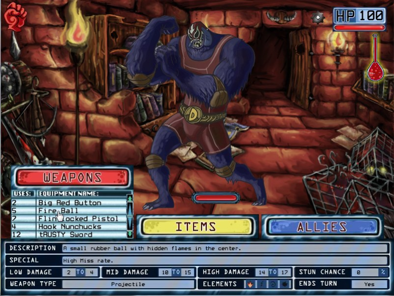 Screenshot from Dark Scavenger